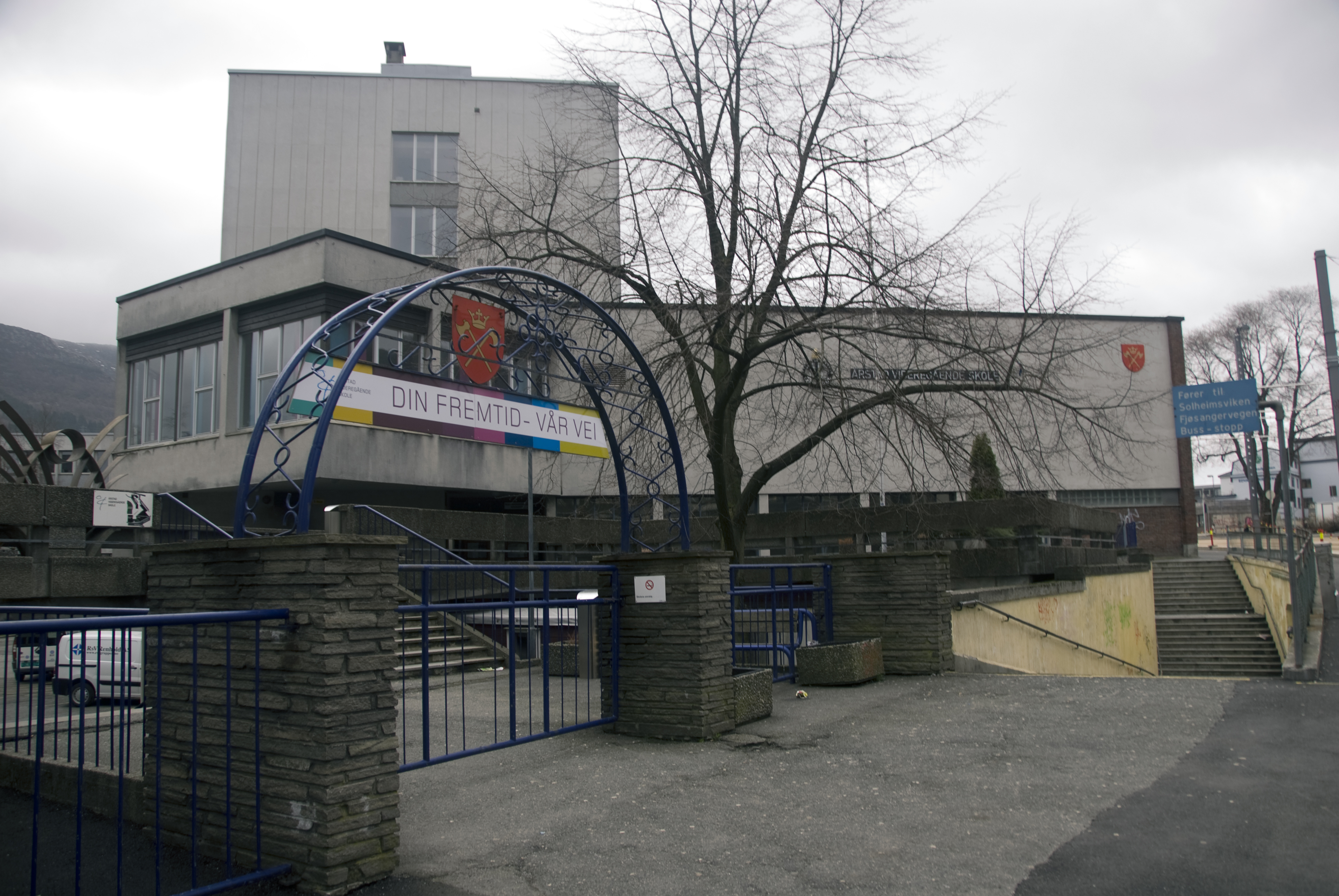 Årstad Upper Secondary School